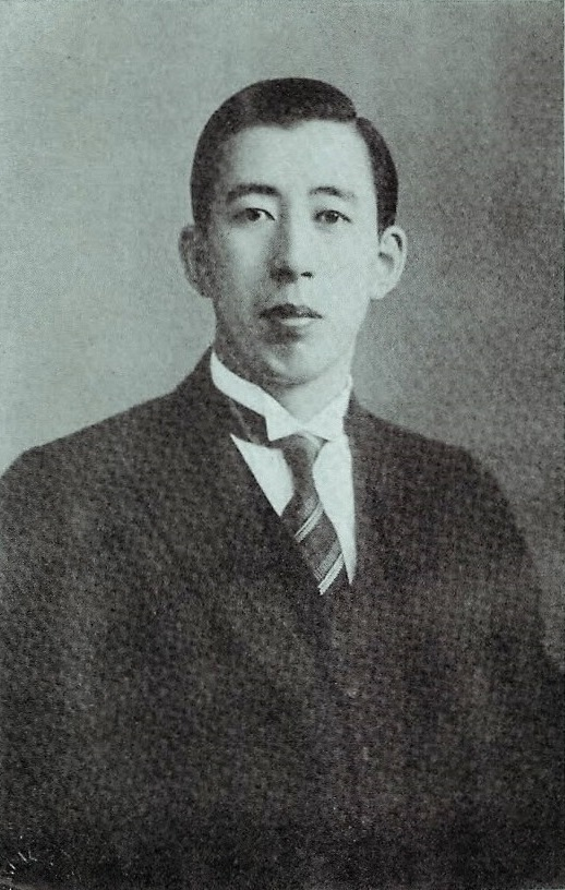 Hisashi Noma, a Kendo player and the second president of Kodansha. This picture was taken in 1937.